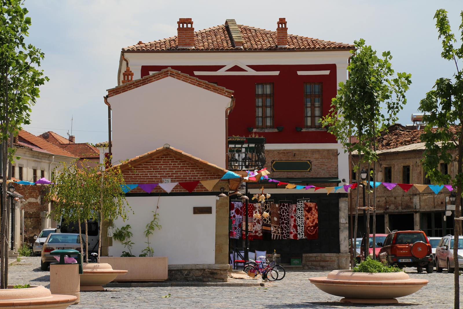 Korca